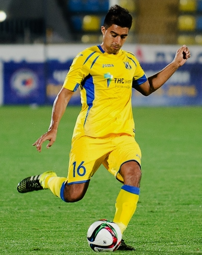 Christian Noboa